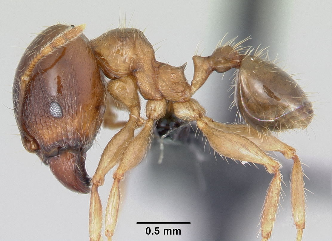 Profile view of ant Pheidole megacephala specimen casent0063124.